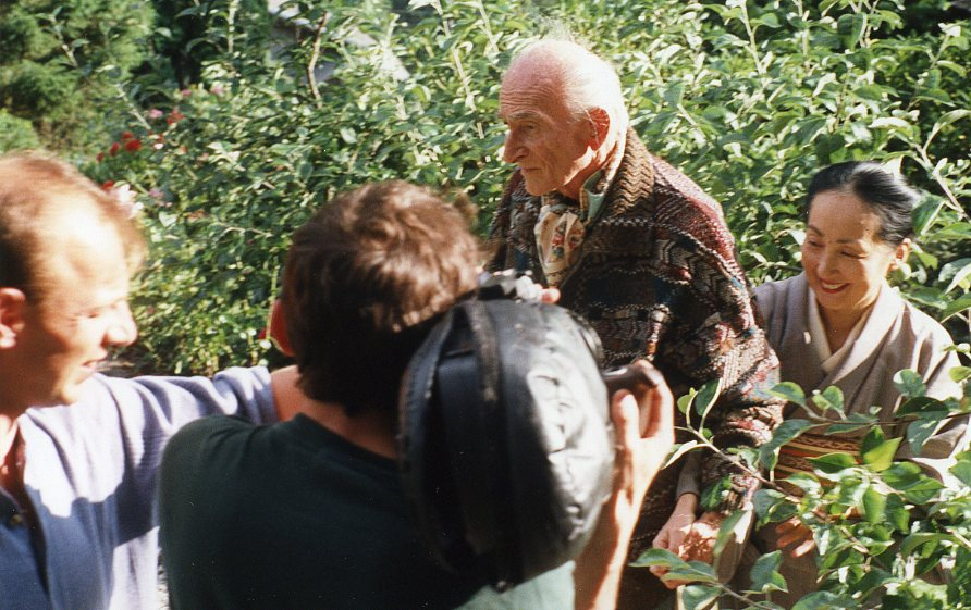 My photo of Balthus with his wife Setsuko being filmed in their garden at the Grand Chalet in Switzerland.